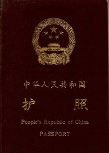 shgd